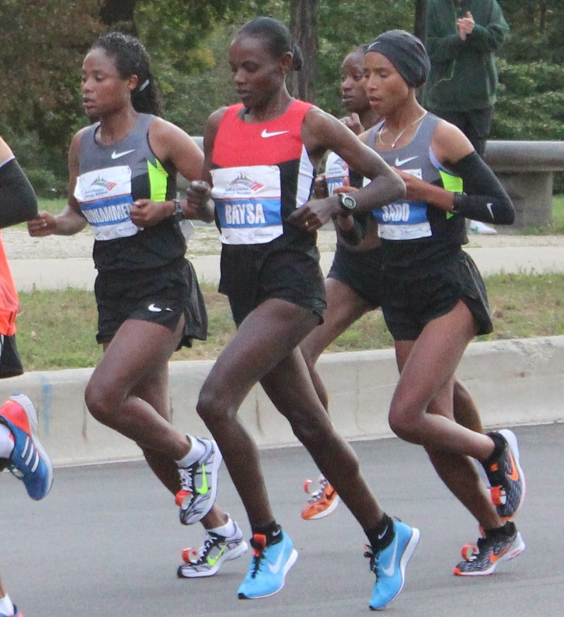 2012 Chicago Marathon - Mohammed - Bayisa - Sado